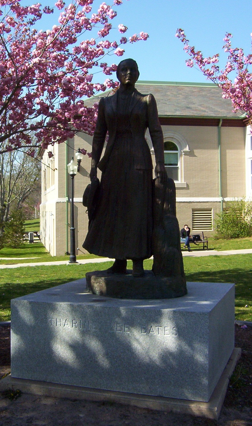 Statue of American educator and author Katharine Lee Bates ("America the Beautiful") outside of the Falmouth Public Library in Falmouth, Massachusetts.